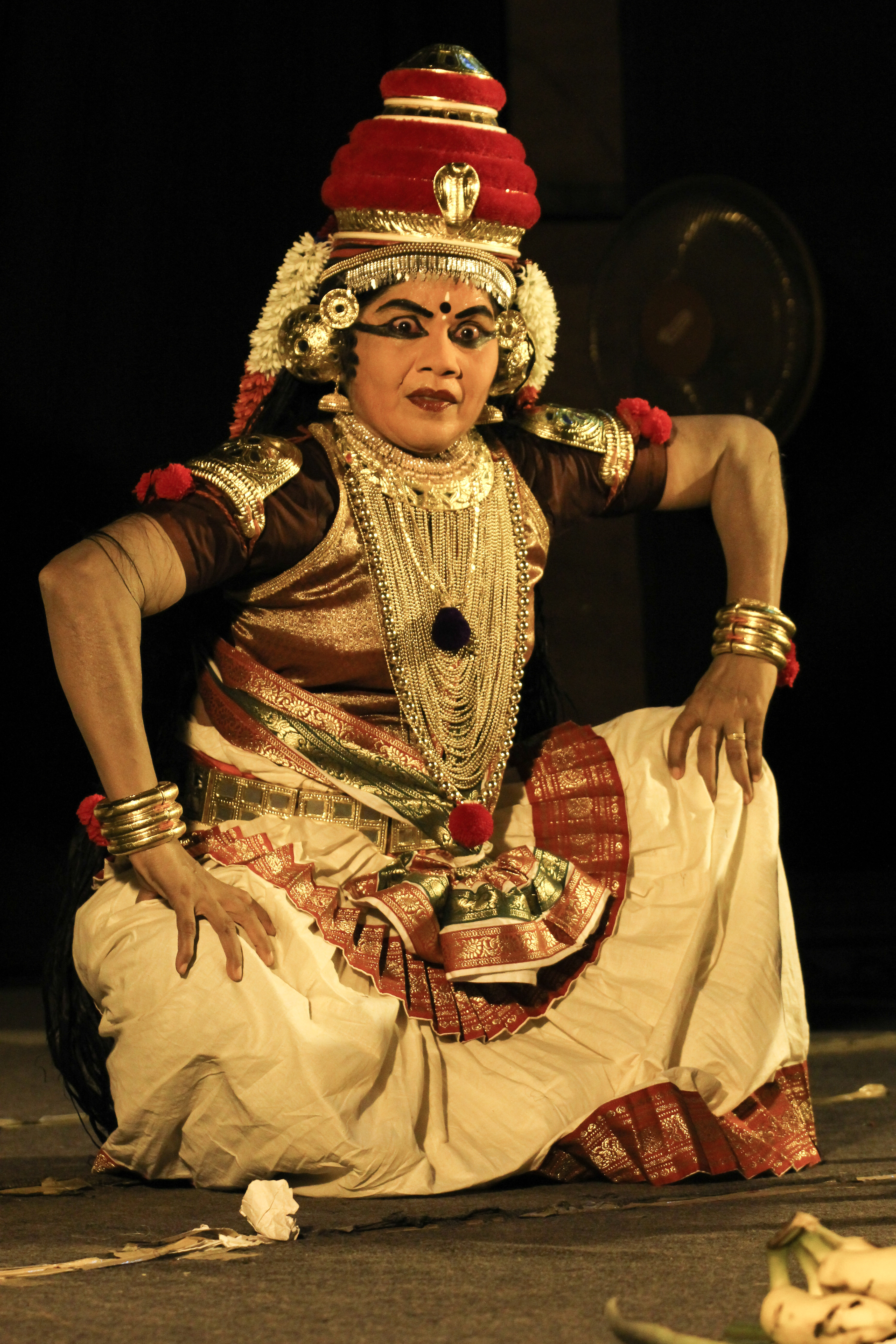 Kalamandalam Girija - Nangiarkooth- Trivandrum